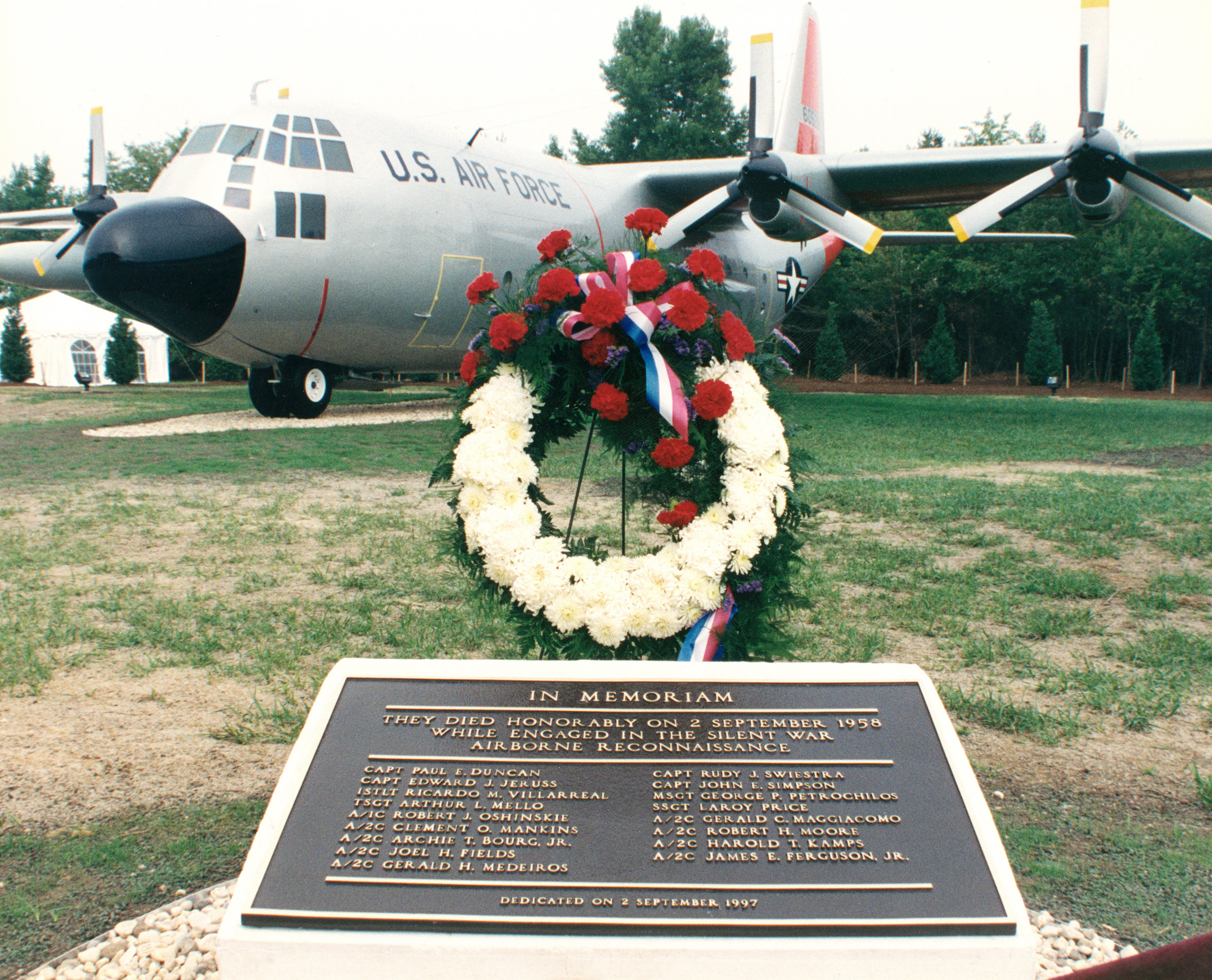 memorial at National Vigilance Park, Fort Meade, Maryland, for C130 aircraft shot down over Soviet Armenia on September 2, 1958